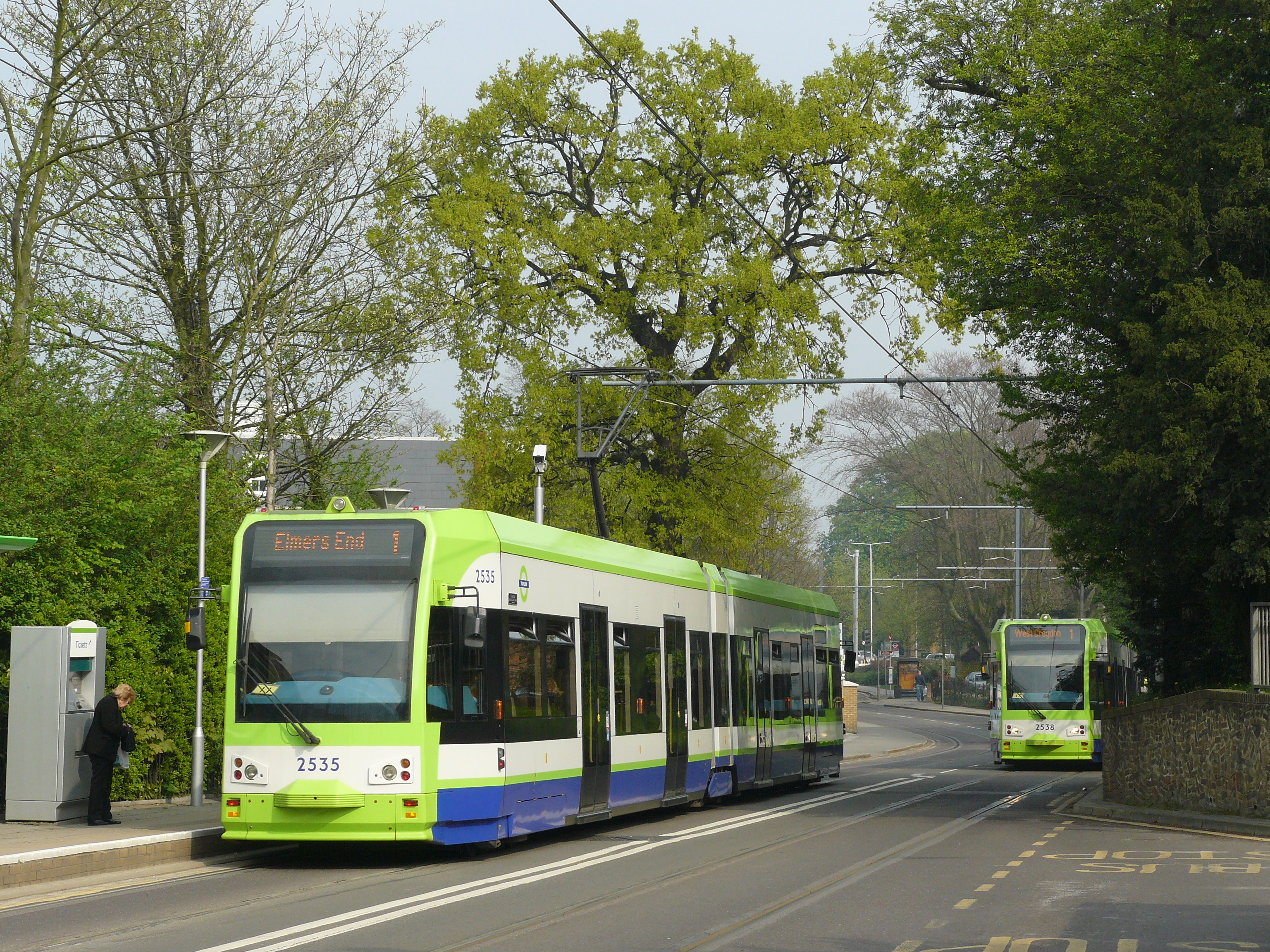 Trams Pass in Addiscombe Road Photograph taken opposite the Lebanon Road tram stop. The fresh green of the leaves contrasts nicely with the lime green of the trams.